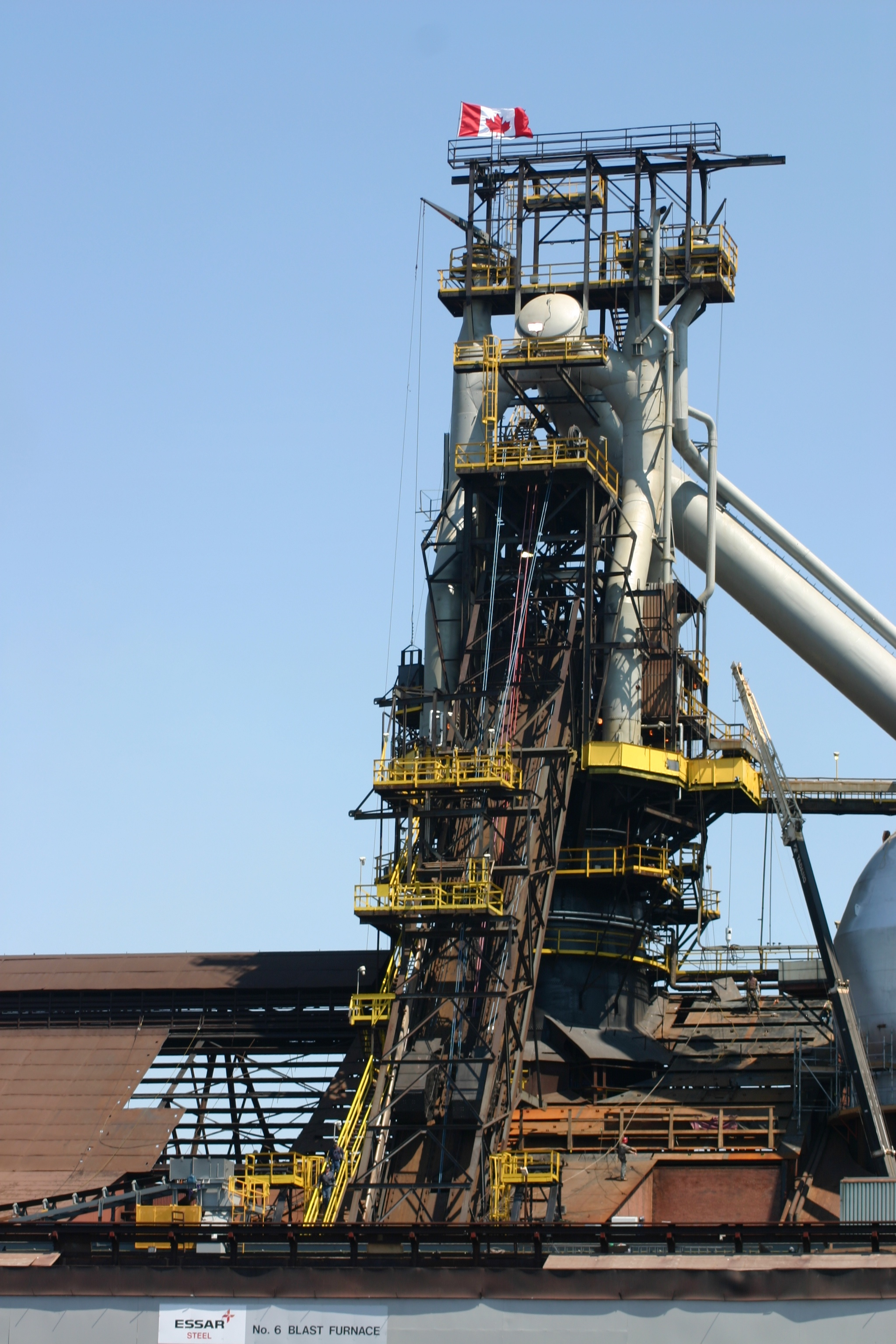 Blast furnace of The Essar Steel Company's at City of Sault Ste. Marie